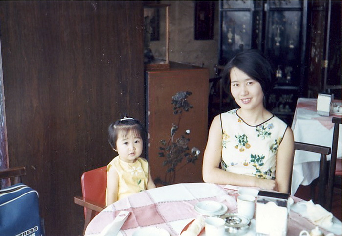 Mother and daughter, Urawa, Japan